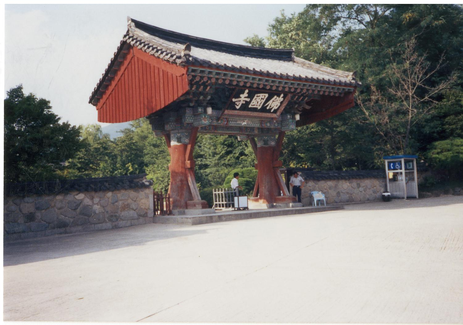 The Main gate of Bulguksa(佛國寺),Gyoengju,South Korea This is a picture that I (the author,田英) took by myself at May 1990